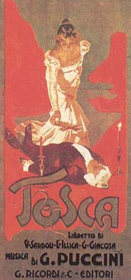 The title page of the first edition of the piano score to Puccini's opera Tosca, published by G. Ricordi